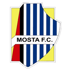 Logo for the Mosta football club.